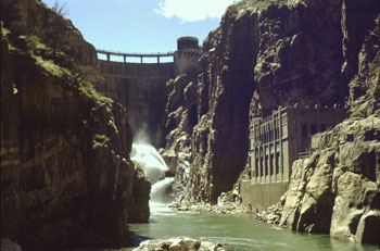 from